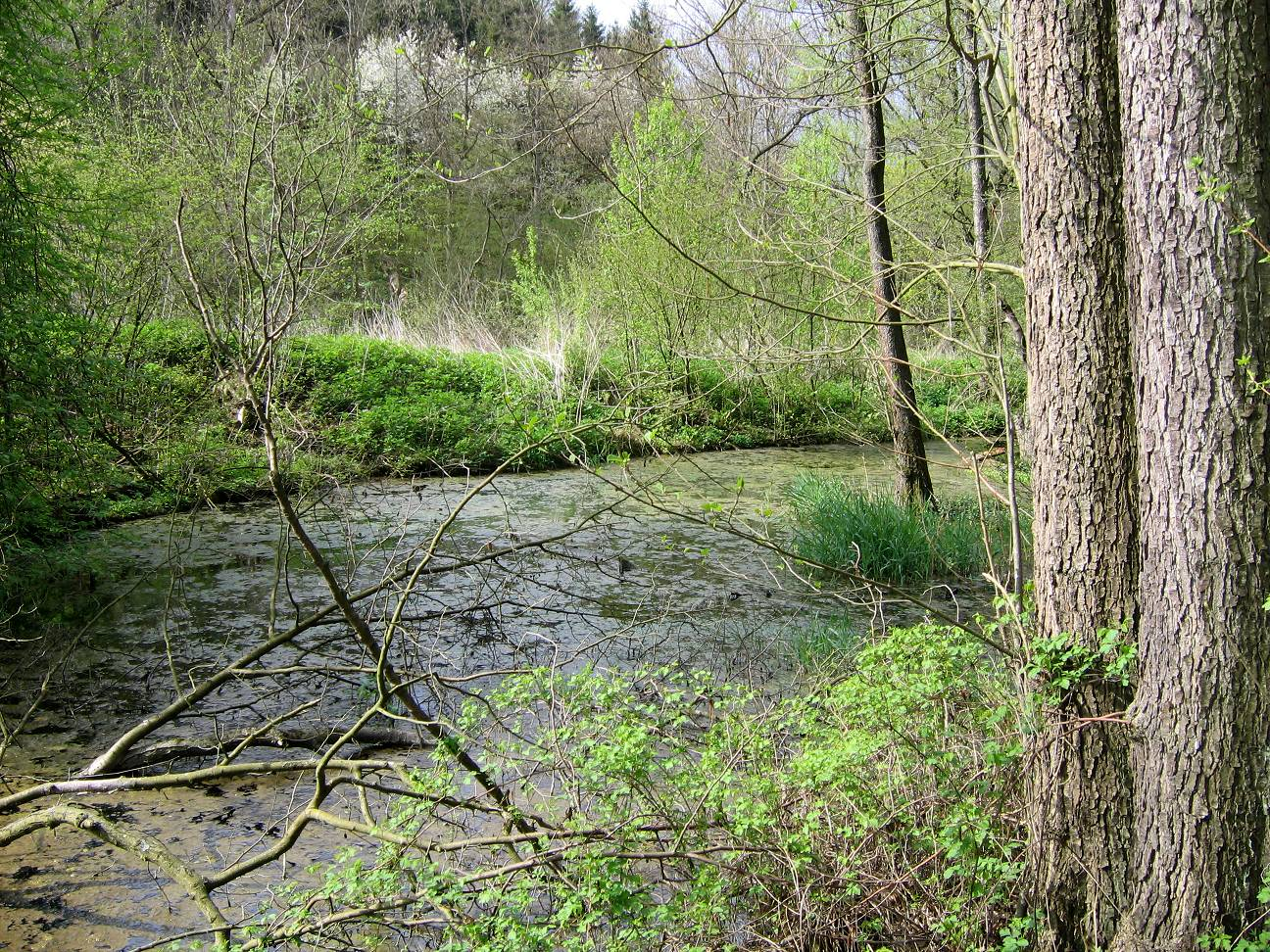 forest pond in Rems valley near Hegnach in Baden-Württemberg